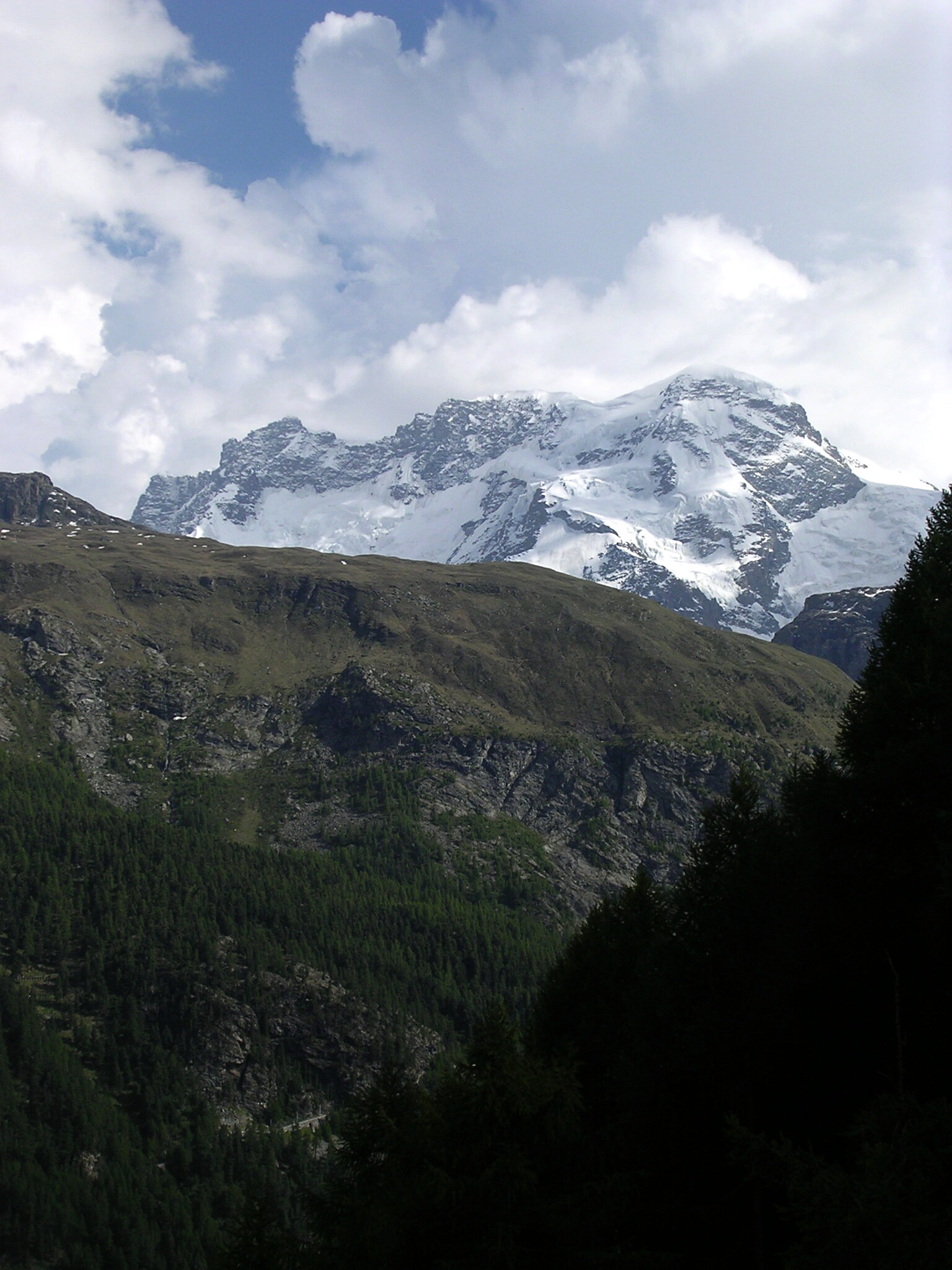 NOT Monte Rosa but the Breithorn seen from Edelweiss near Zermatt, Switzerland.